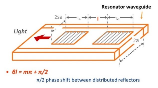 Fig.2. Principle of Single mode resonator consisted of two distrusted reflectors connected with phase shift of integer multiple of Π/2, for Dynamic Single Mode (DSM) Lasers, in 1974